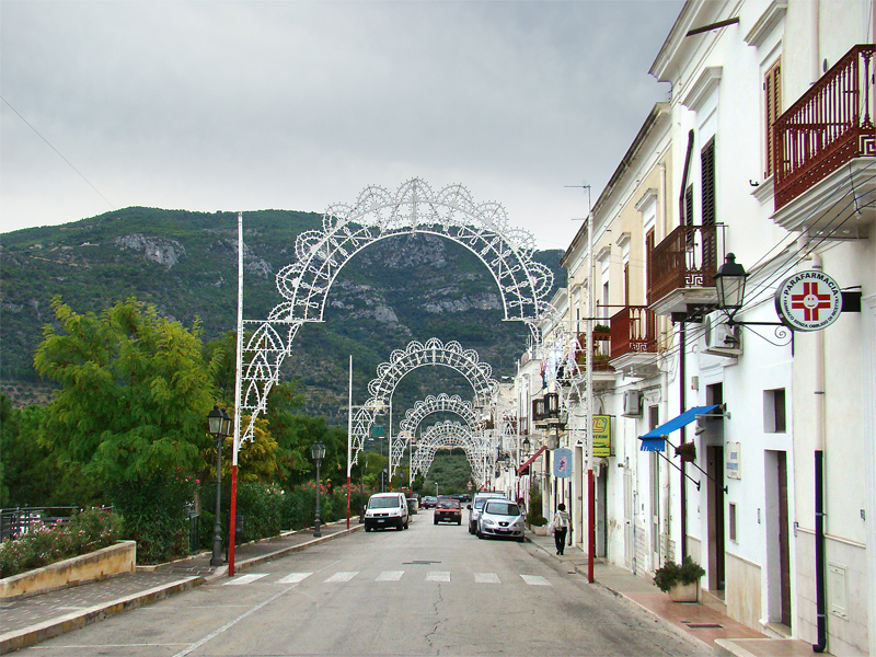 Mattinata, Apulia, Italy. Corso Matino.